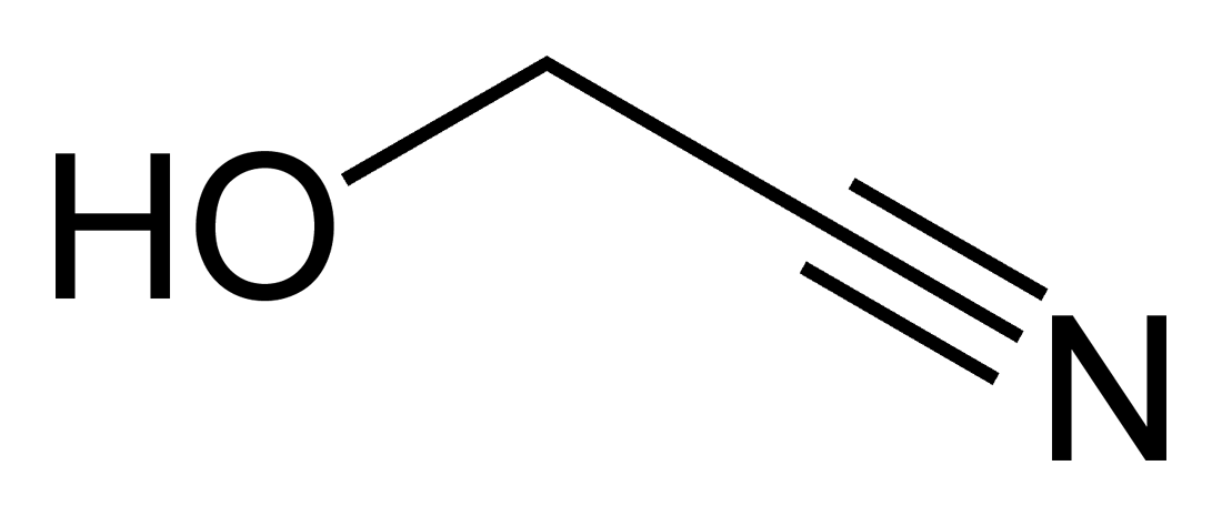 Skeletal formula of the glycolonitrile (2-hydroxyacetonitrile) molecule, C2H3NO.